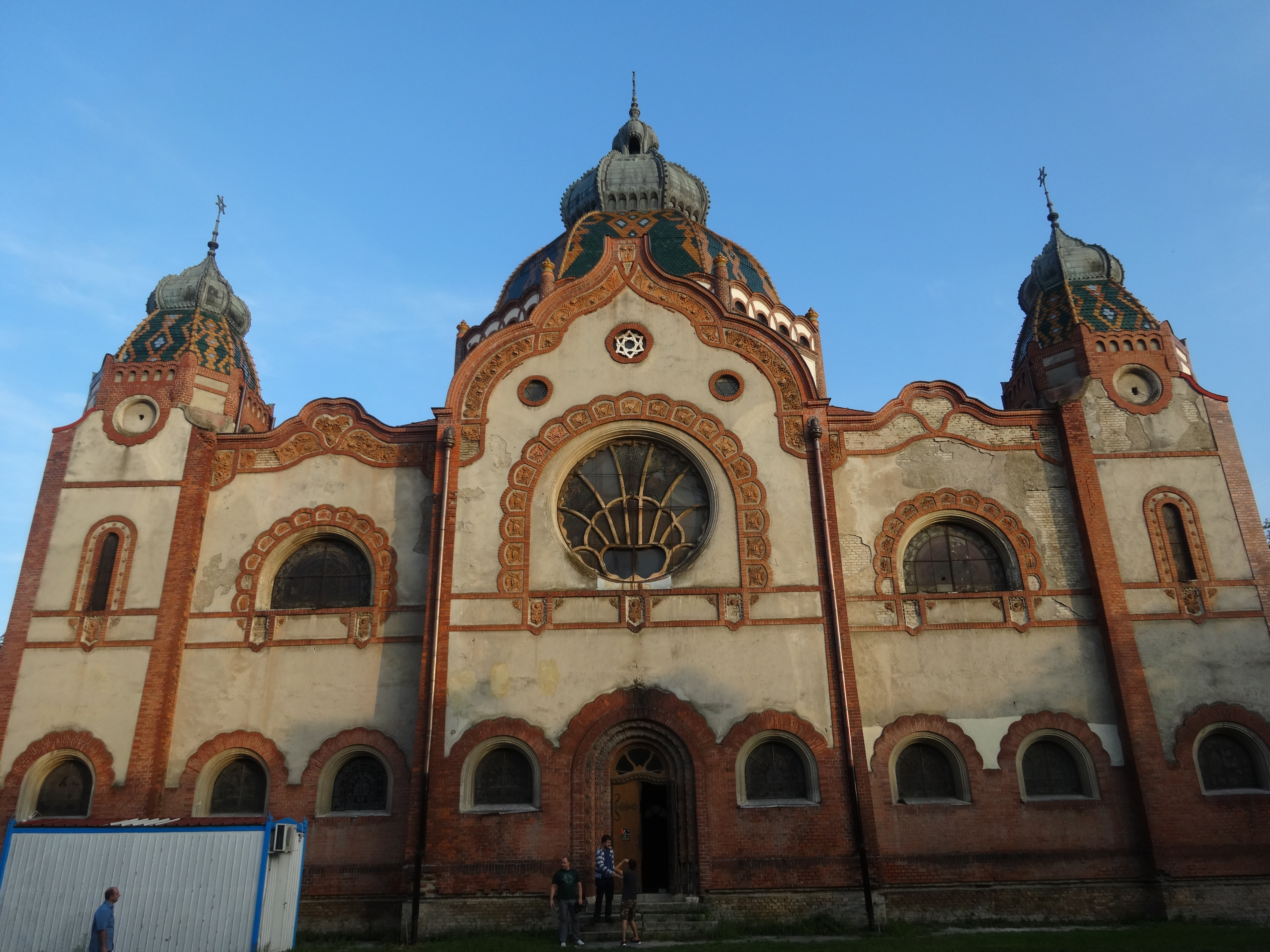 For the purpose of networking and strengthening cooperation between the chapters of the Wikimedia Foundation, Wikimedia Serbia and Wikimedia Hungary held a Wiki Camp in Palic and Szeged from 22nd to 24th of August in 2014 at Palic and Szeged as a three-day event. During these three days, participants from Serbia and Hungary have had workshops of editing Wikipedia, photo tour and creative workshop solving case studies. Subotica Synagogue